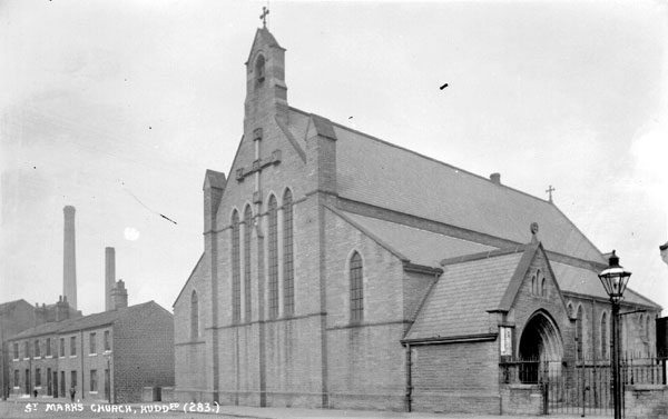 Archive image of Church of St Mark, Old Leeds Road, Huddersfield, West Yorkshire, England. Built 1887, designed by architect William Swinden Barber. Note on date of image: Although Kirklees Image Archive dates this photo within the decade 1910-1919, it is far more likely to be dated before 1907, when the churchwardens resigned and the church began to be neglected.